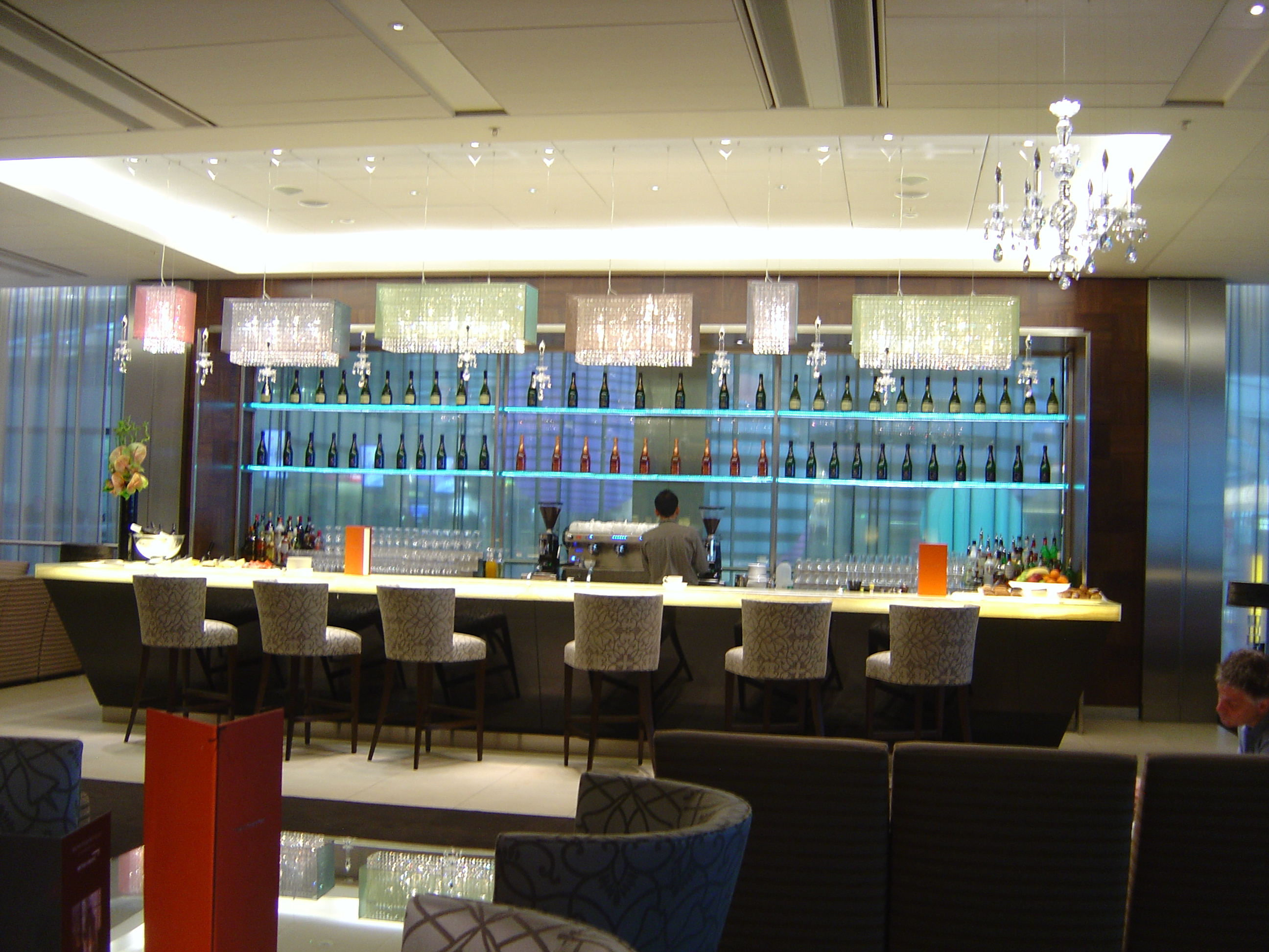 British Airways Concorde First Class Lounge Heathrow Terminal 5